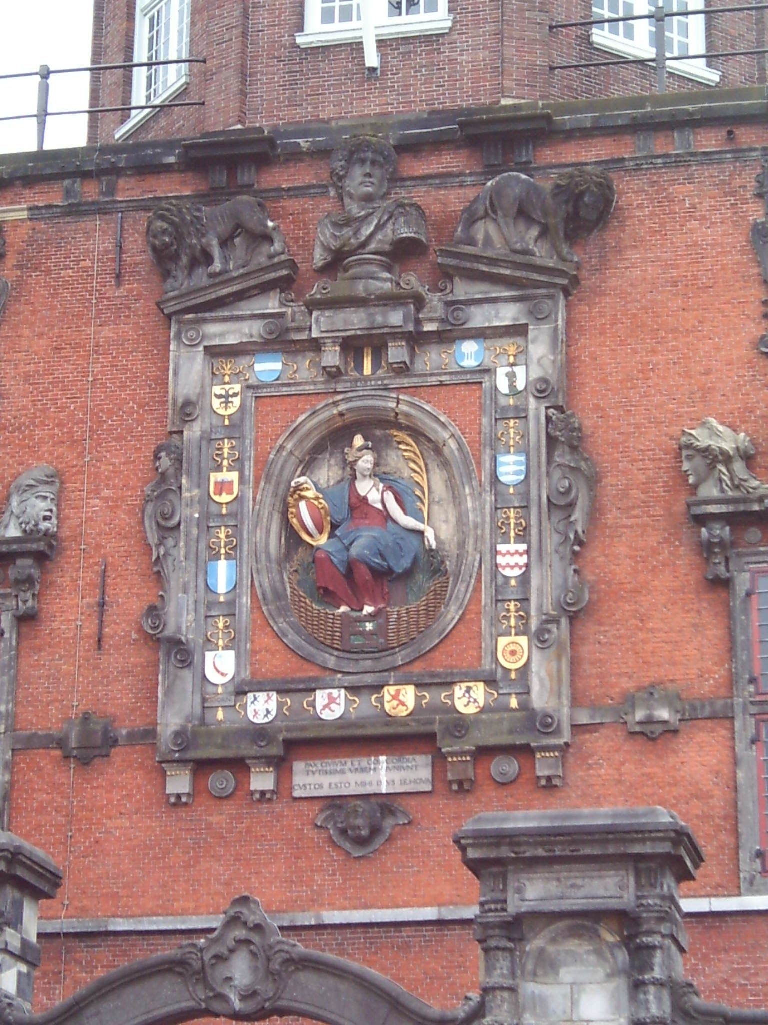 Dordrecht Maiden sitting in the Garden of Holland, 16th century, by Gillis Huppe. She is surrounded by 15 city shields of cities who rebelled during the eighty years war. From top right, these city shields are the cities of Monnickendam (monk), Enkhuizen (3 fish), Asperen, Heusden, Schiedam, Vlaerdingen, Geertruidenberg, Schoonhoven, Hoorn, Weesp, Leerdam, Naarden, Muiden, Medemblik, and Grootebroek. PAX CIVIVM ET CONCORDIA TVTISSIME VRBEM MVNIVNT CVSTOS ESTO MIHI DEVS IEHOVA